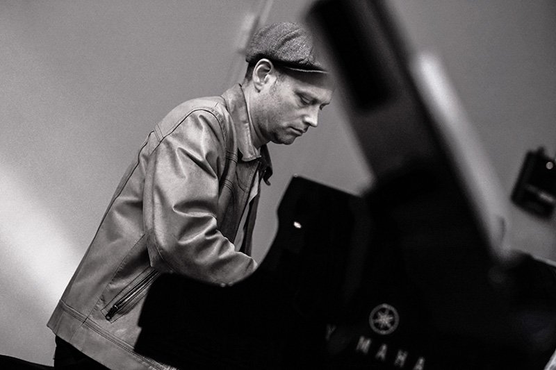 Mathias Landaeus in Aarhus, Denmark 2017